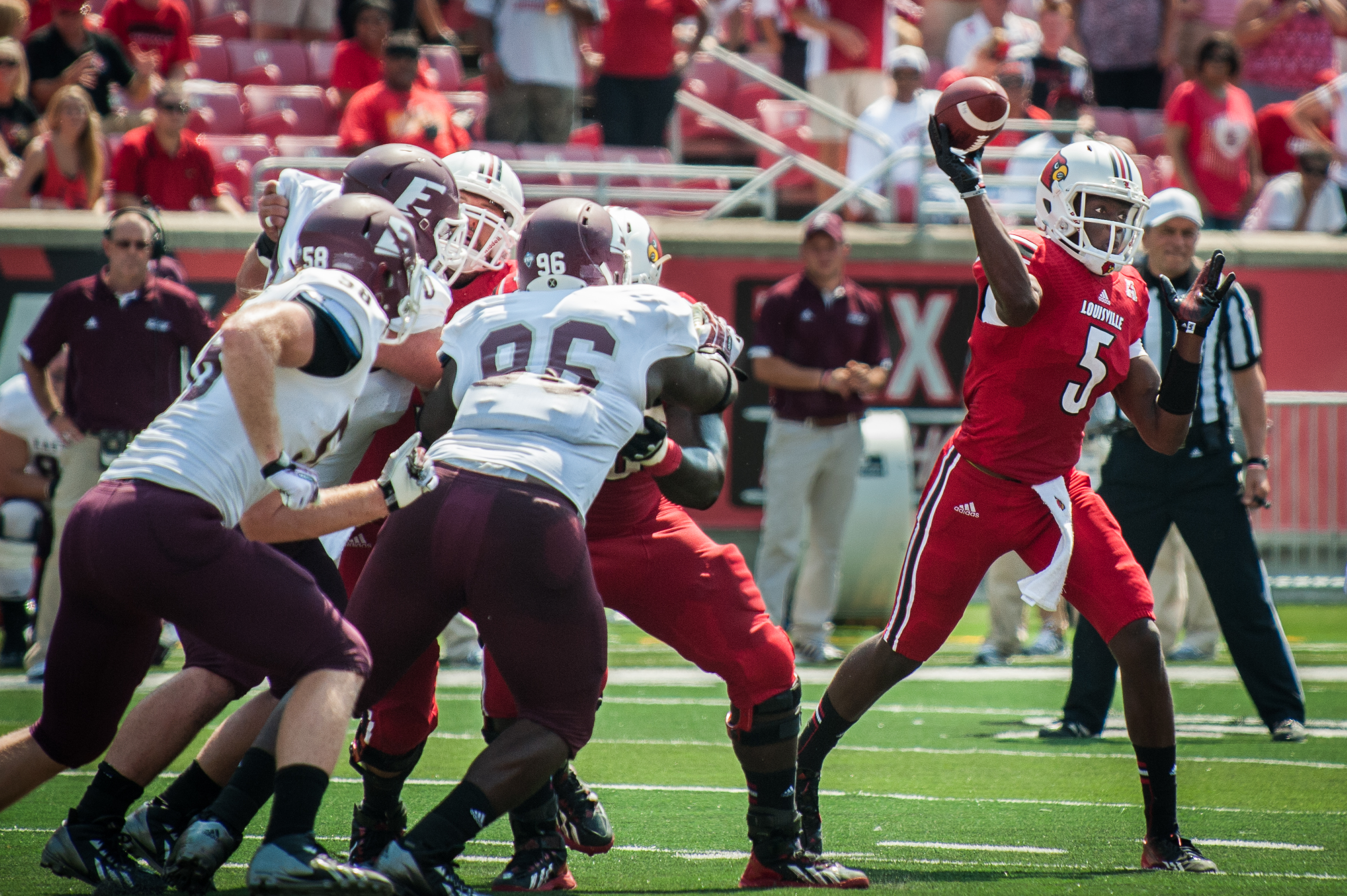 Louisville Cardinals QB Teddy Bridgewater.